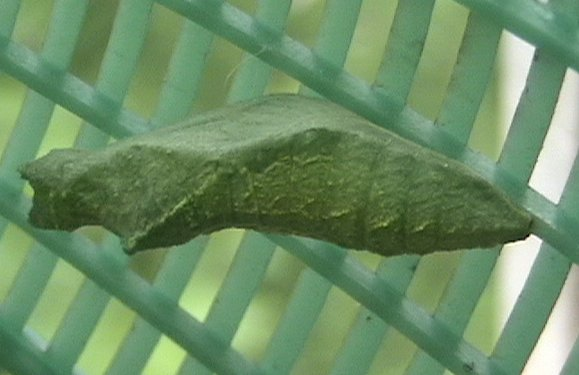 Lime butterfly pupa. During rearing at my home. Taken by self